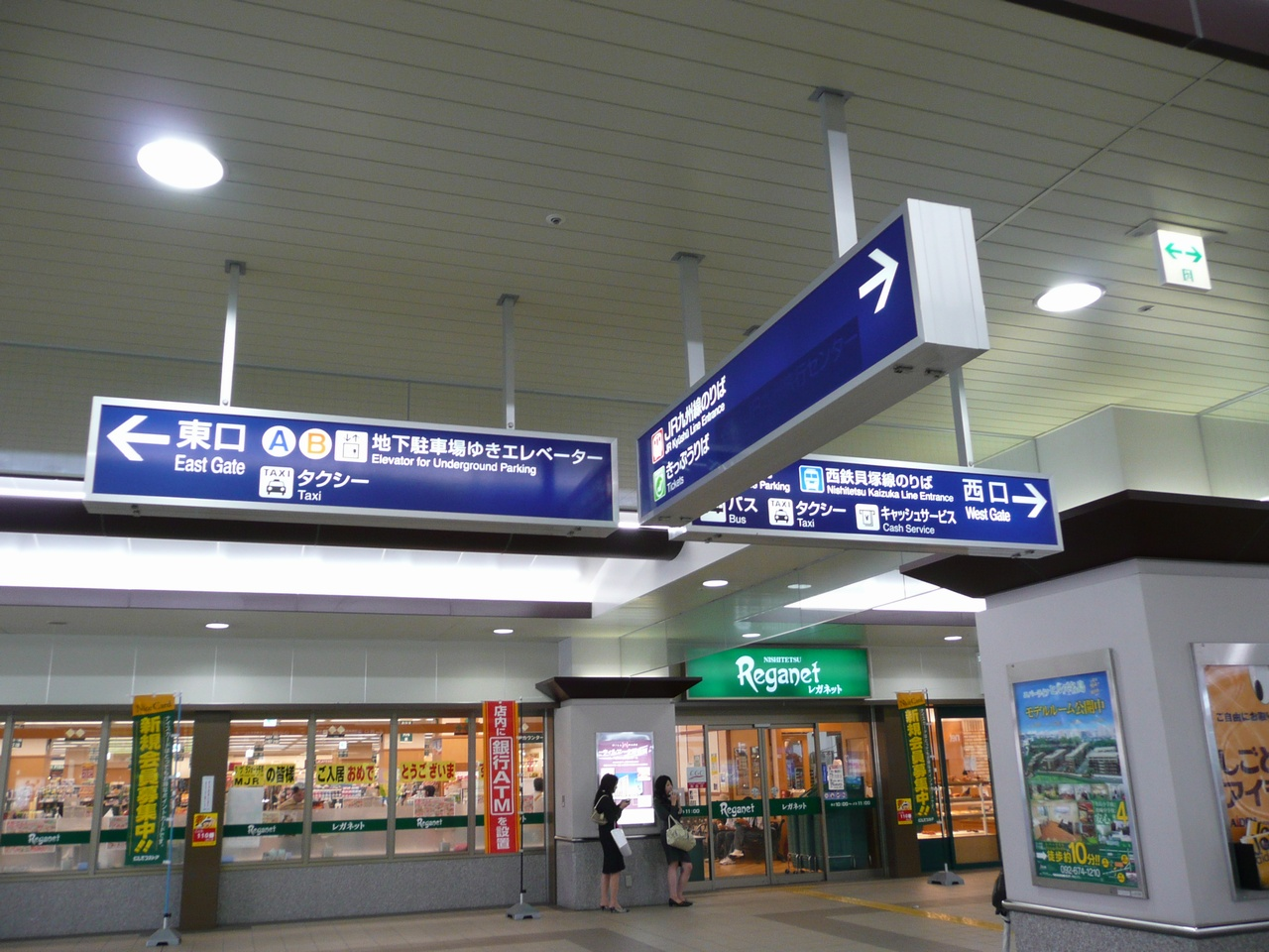 Reganet Chihaya (Nishitetsu Store) - Chihaya Station, Fukuoka City, Japan.